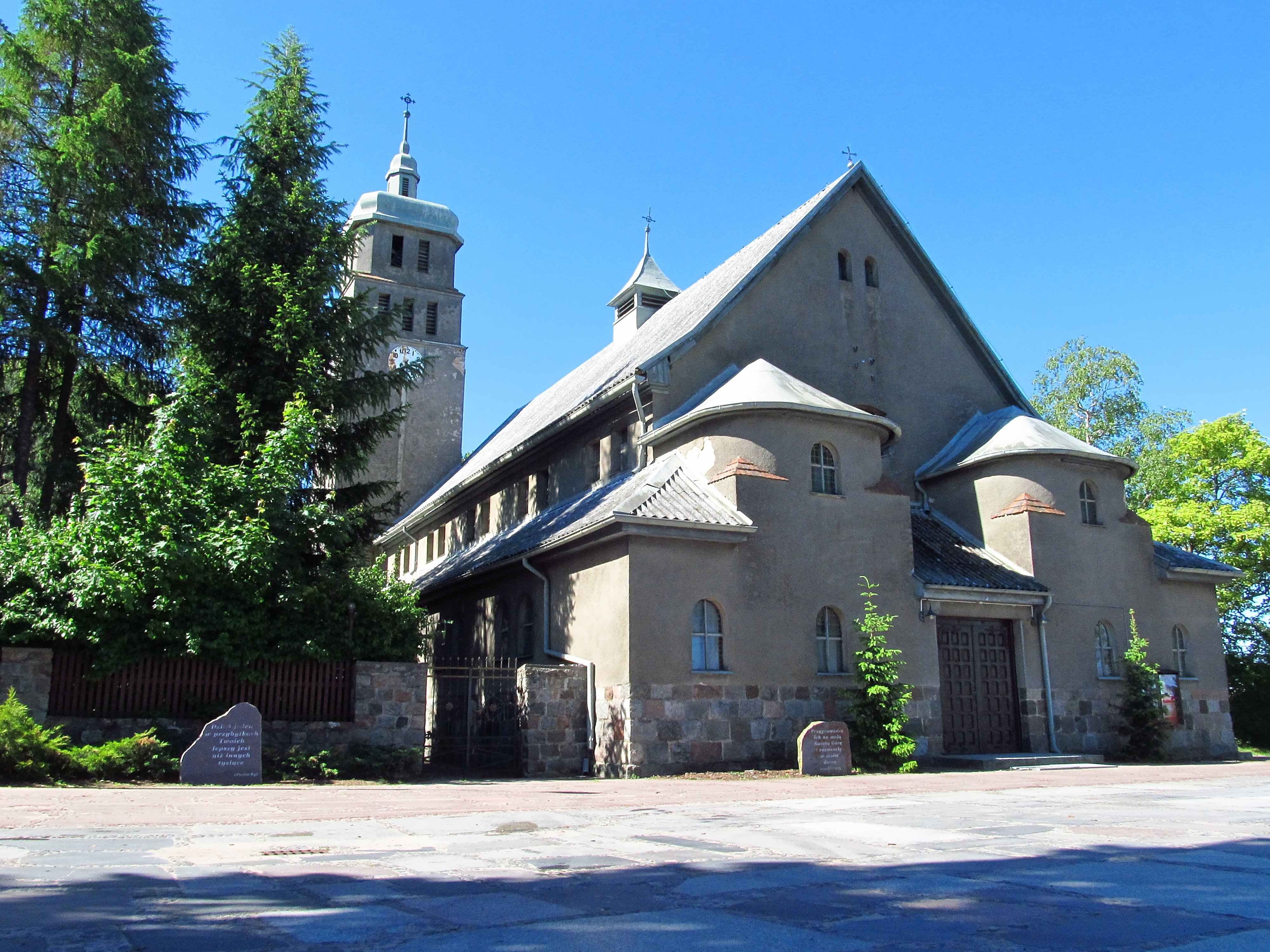 On the hill there is a church Czubnica